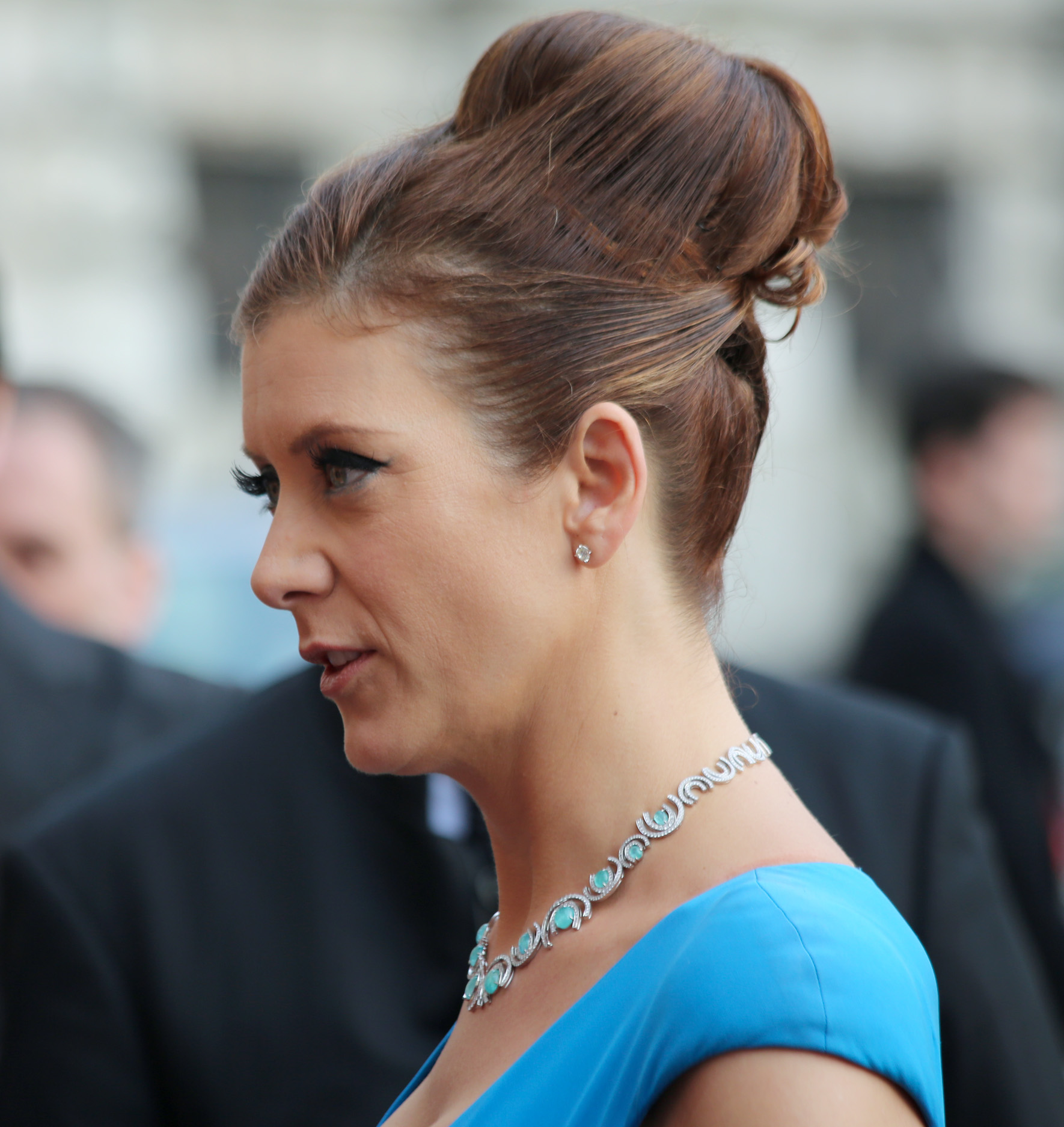 Kate Walsh at the Romy film awards (Hofburg Imperial Palace in Vienna)